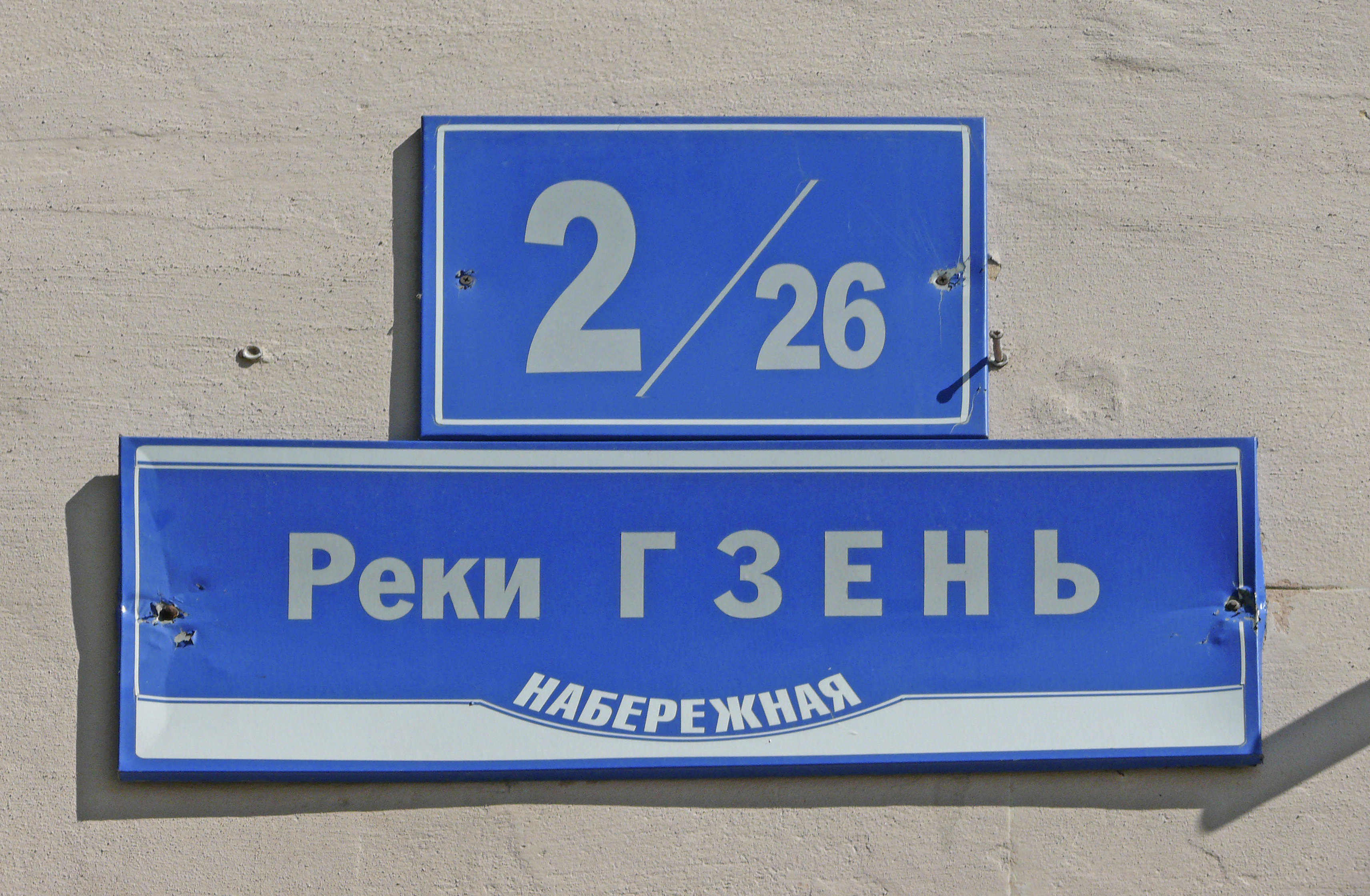 Plaque on a house in the Esplanade of Gzen river street in Veliky Novgorod, Russia